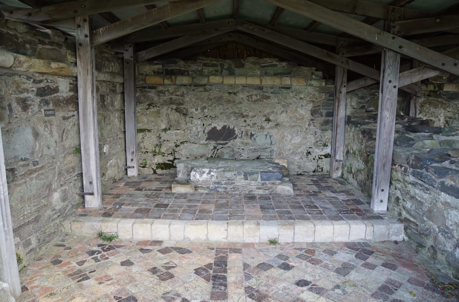 Strata Florida Abbey, Wales. One of the chapels in the southern transept.